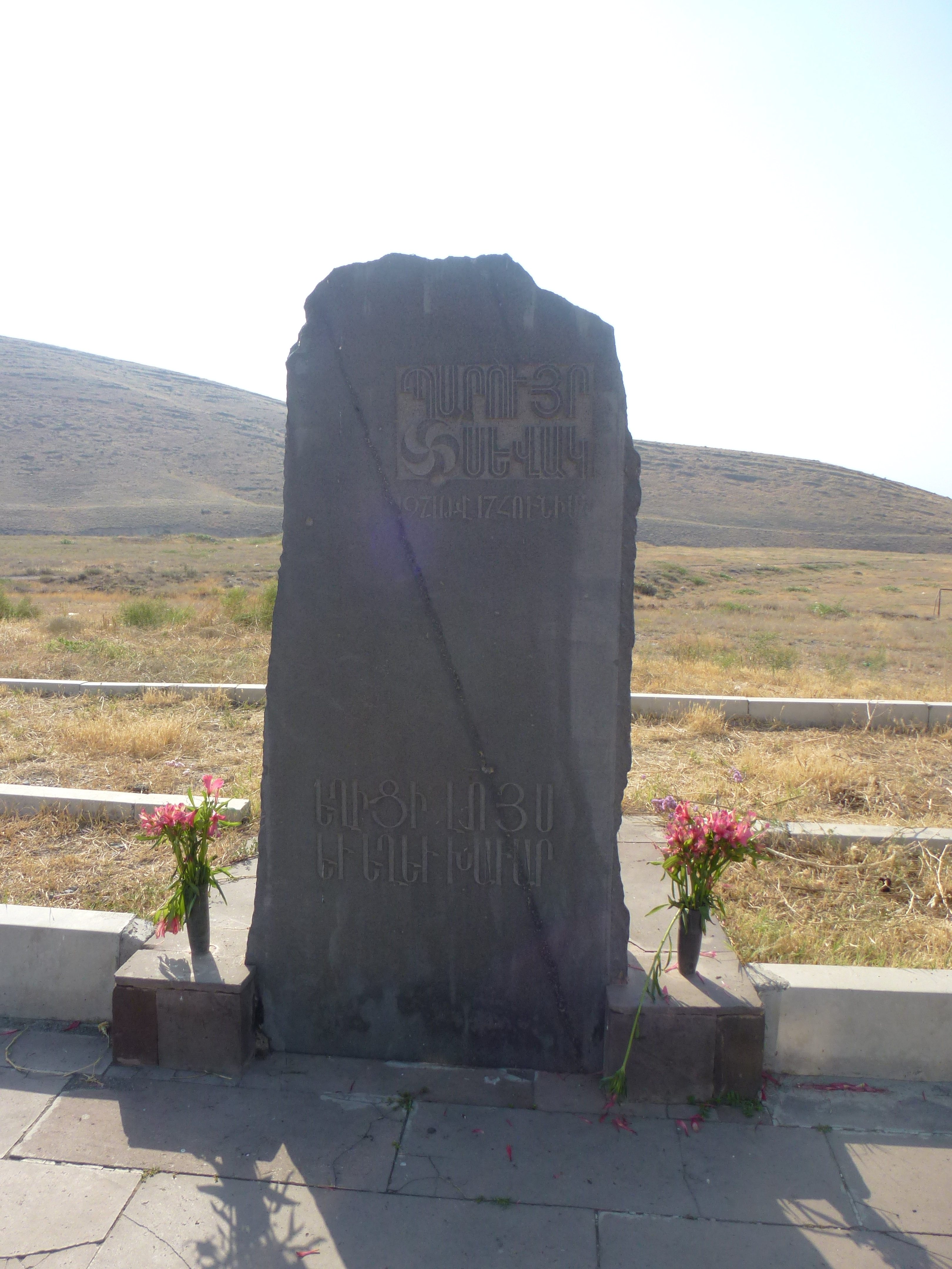 Memorial for writer Paruyr Sevak in Paruyr Sevak village